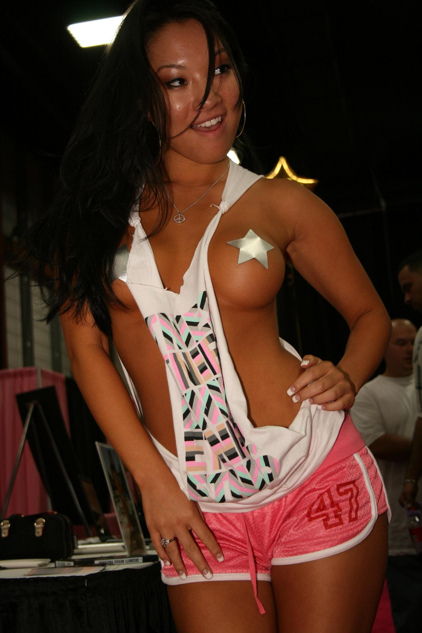 Asa Akira at Exxotica 2008.